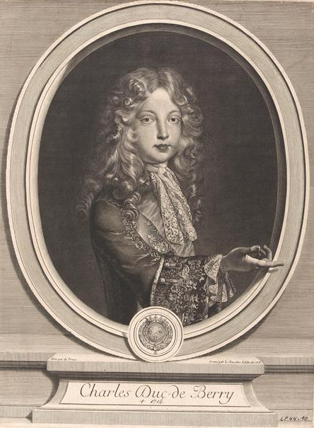 Charles de France, Duke of Berry (1686-1714)